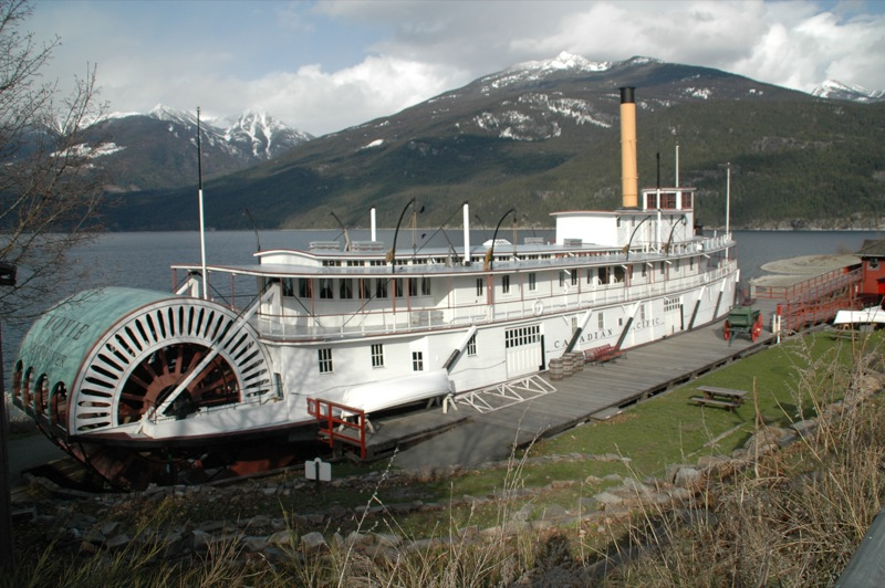 Sternwheeler Moyie, at Kaslo, BC, in April 2008.